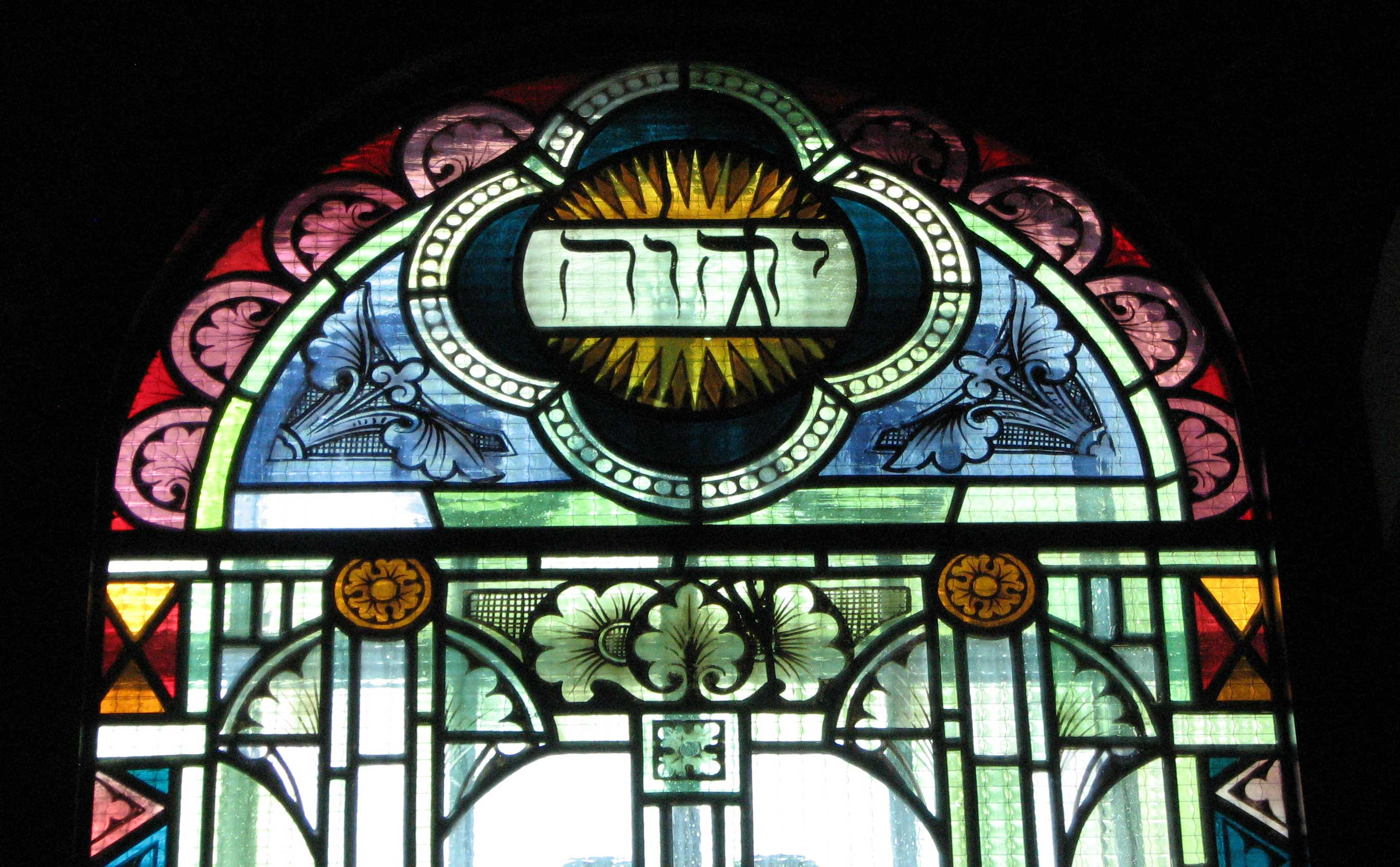 Stained glass window in the left aisle of the Basilica of St. Louis King in Katowice Poland, XX century - upper part of the stained glass window with Tetragrammaton